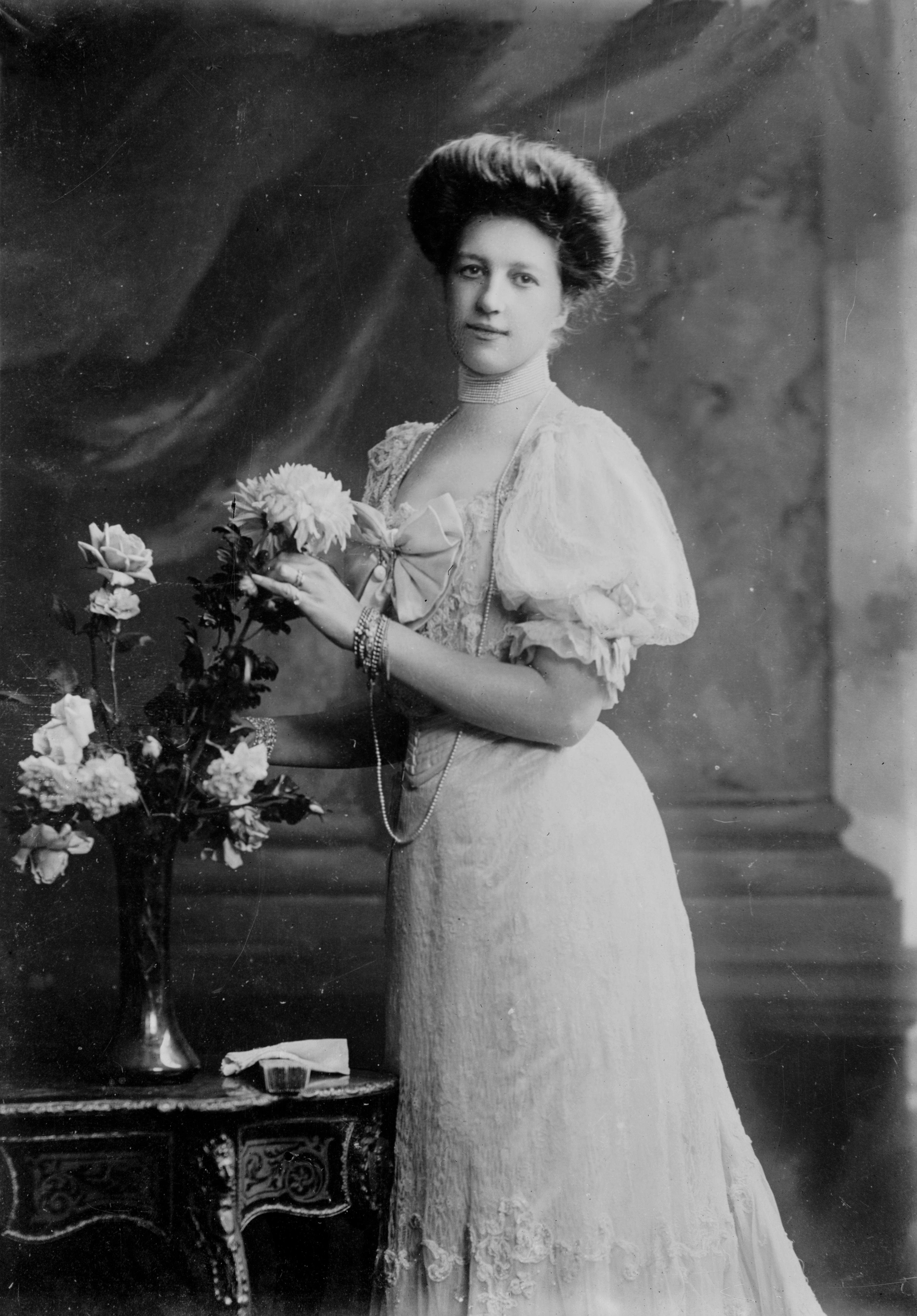 Princess Dorothea of Saxe-Coburg and Gotha, Duchess of Schleswig-Holstein wife of Ernst Gunther, Duke of Schleswig-Holstein